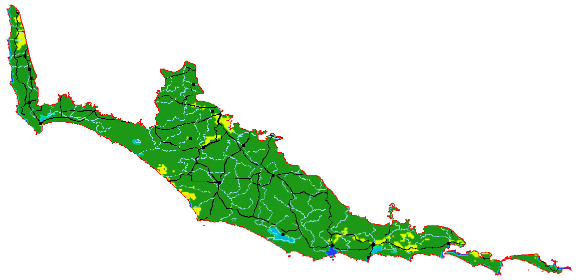 This is a map showing internal detail of the Interim Biogeographic Regionalisation of Australia (IBRA) Warren region, which also happens to be the Jarrah-Karri forest and shrublands ecoregion. Areas that are predominantly given over to agriculture are shown in yellow; those that are still native vegetation are green; barren areas are light brown. Roads, railway lines, towns, watercourses and lakes are also shown.